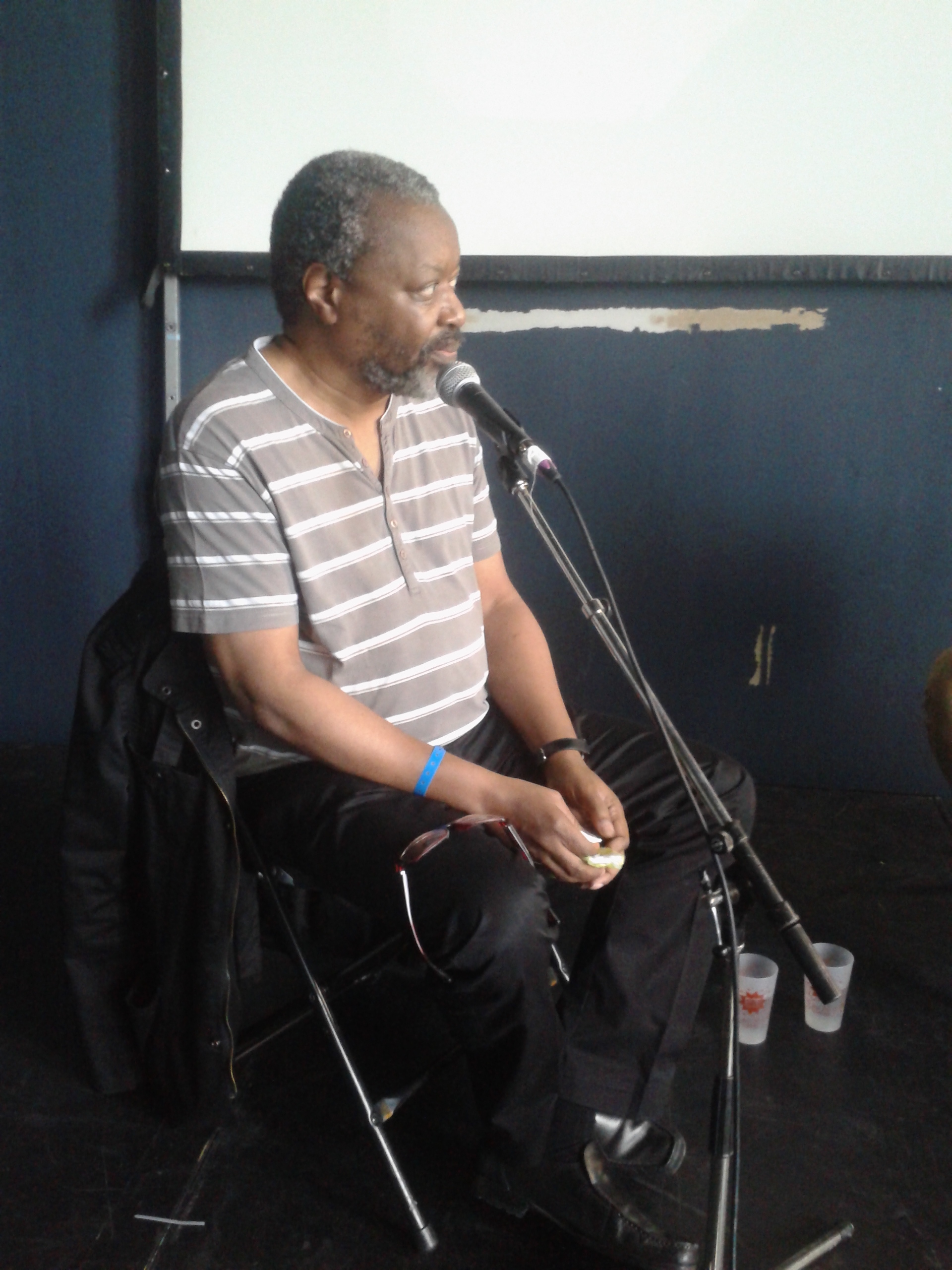 Wally Badarou photographed in Montreal, Quebec, Canada at Quartiers Pop as part of the Pop Montreal festival.